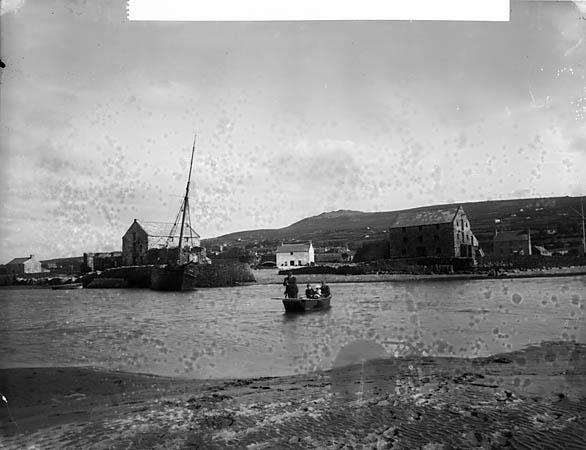 1 negative : glass, dry plate, b&w ; 16.5 x 21.5 cm.